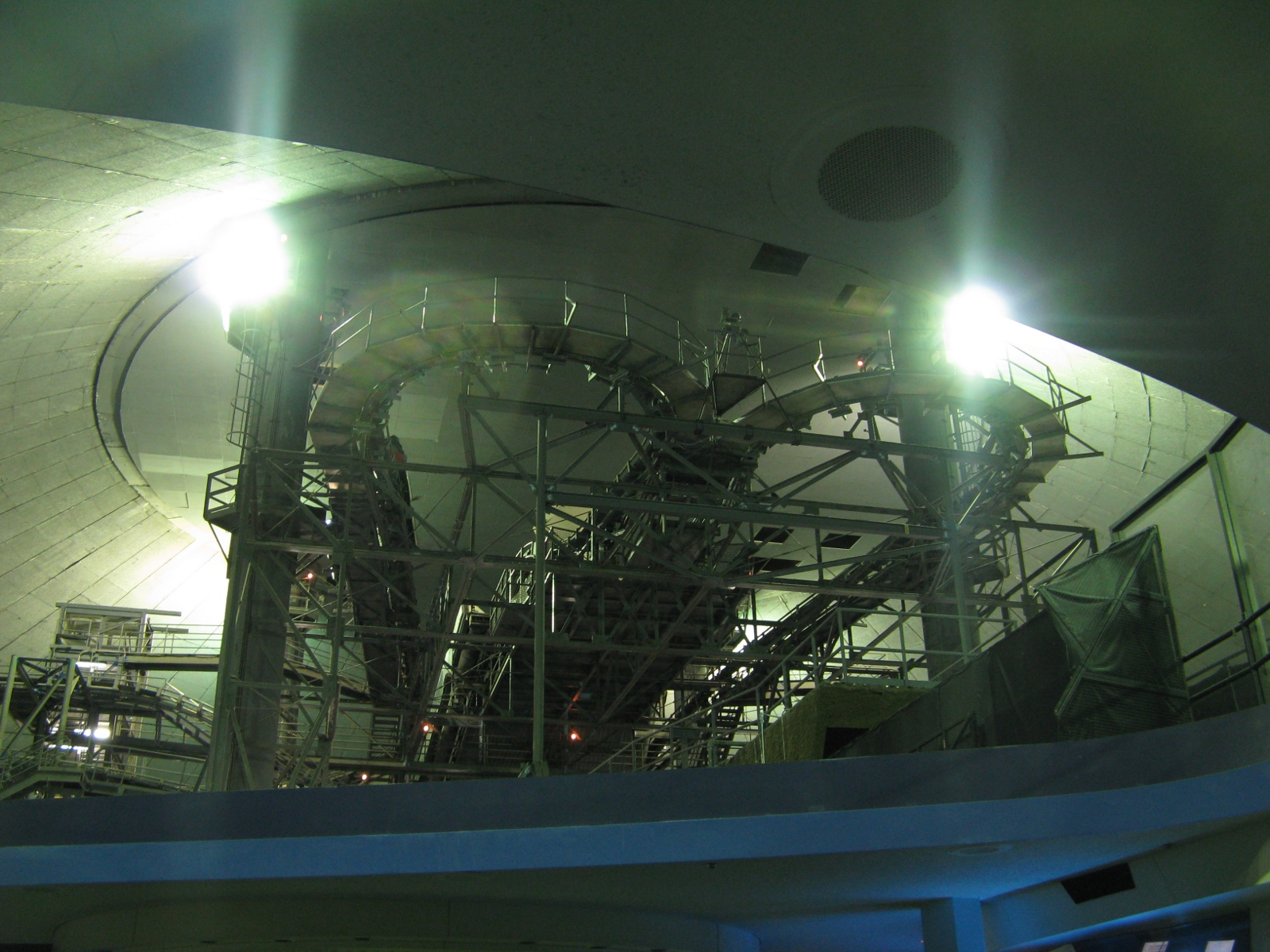 The interior of Space Mountain at Walt Disney World Resort's Magic Kingdom in Orlando, Florida.